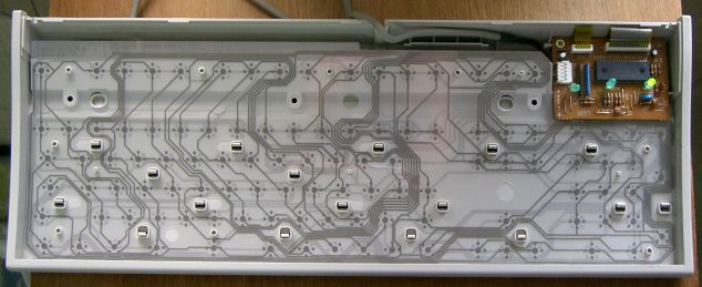 Inside of keyboard